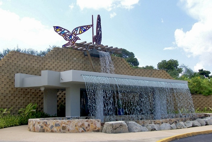 Entrance to the Botanic and Cultural Gardens.